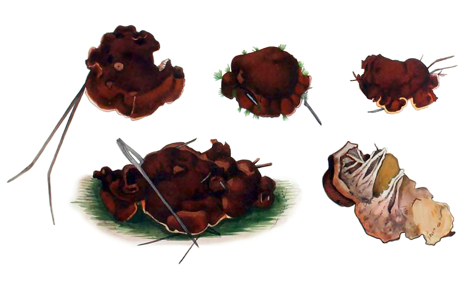 Pine Firefungus (Rhizina undulata)